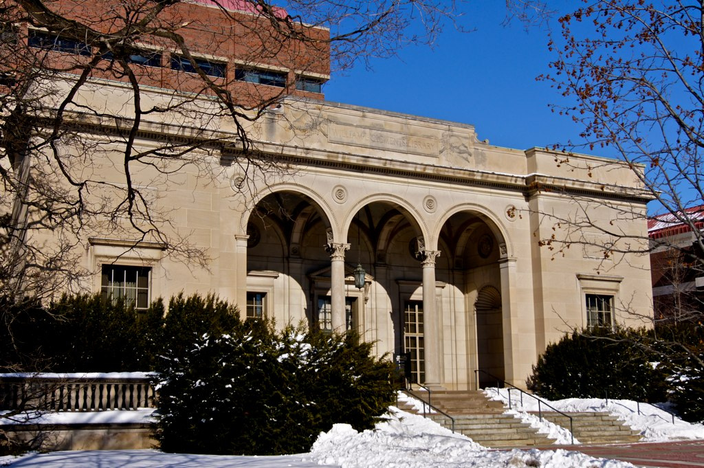 William L. Clements Library on the University of Michigan Campus in Ann Arbor, MI.